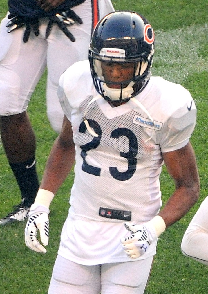 Cornerback, Kyle Fuller, at Chicago Bears training camp in 2014.